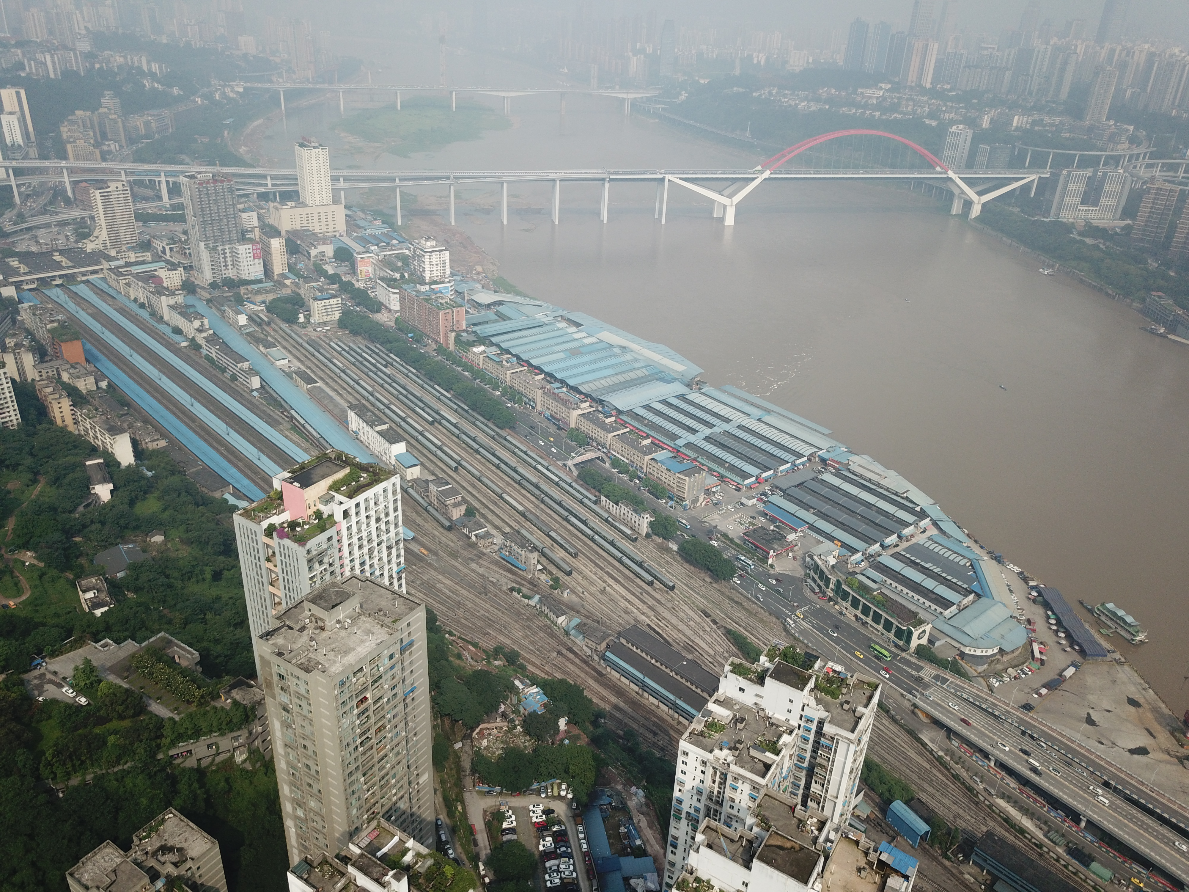 Chongqing Railway Station